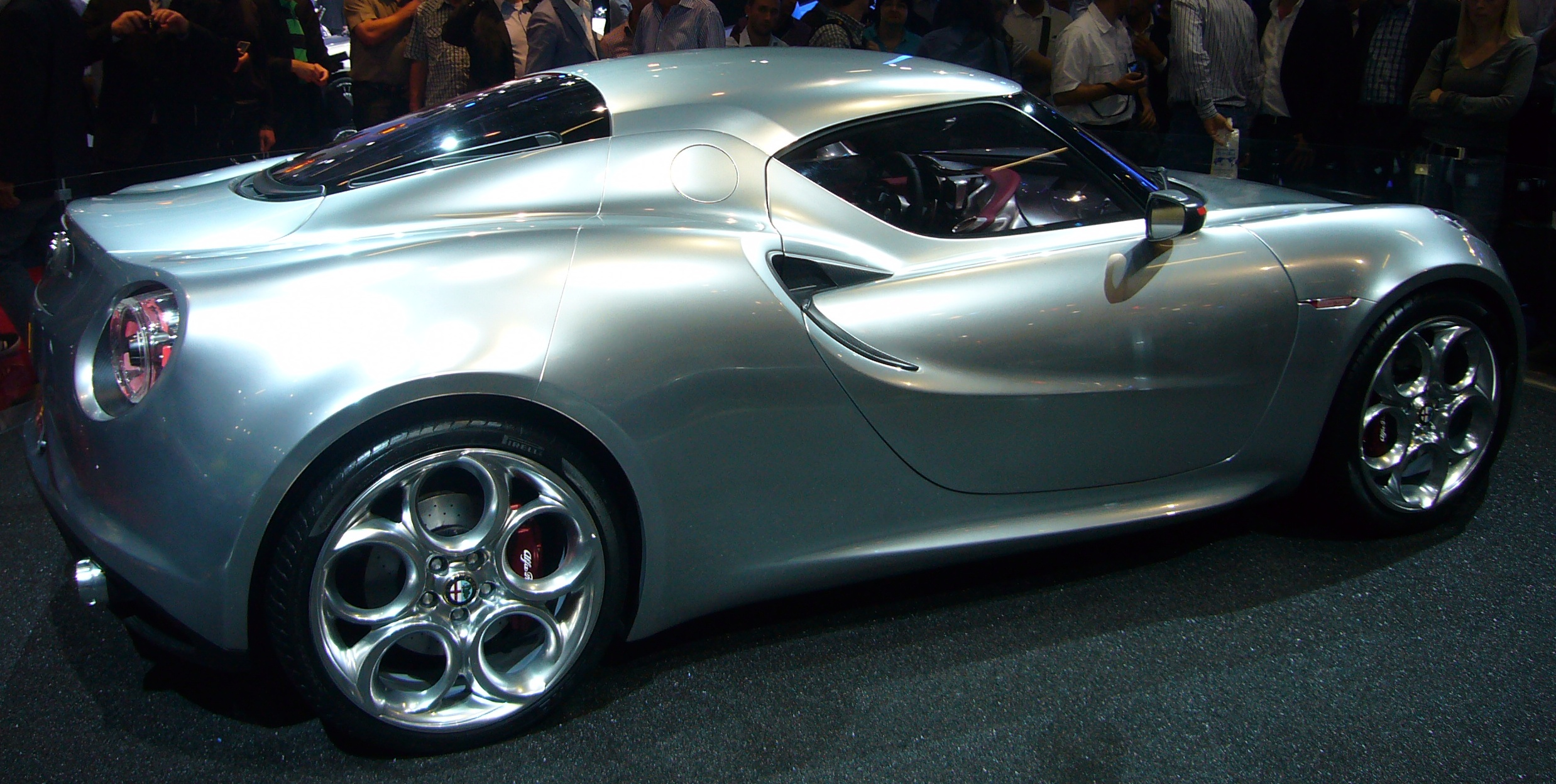 Alfa Romeo 4C Fluid Metal Concept at IAA Frankfurt 2011.